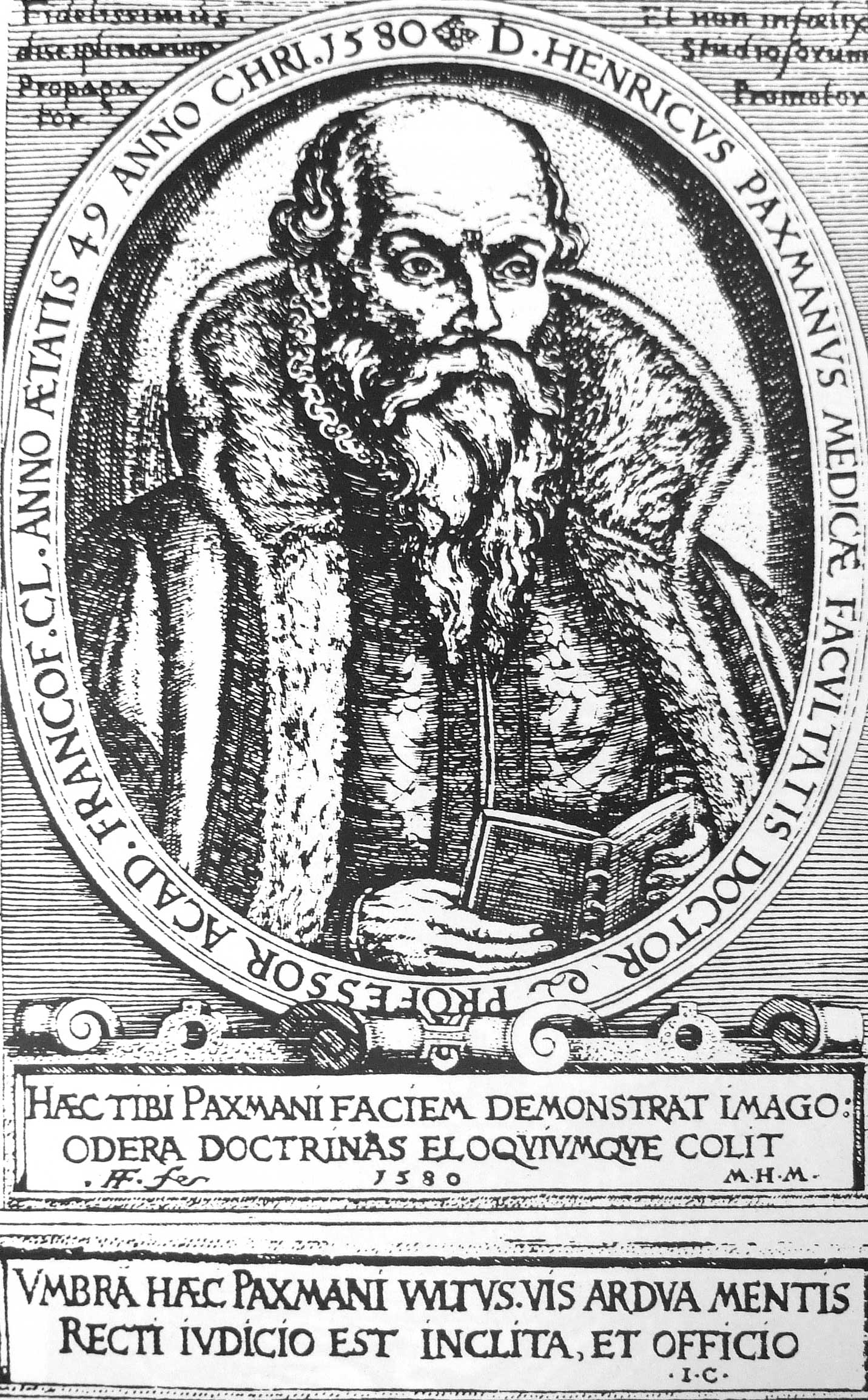 Heinrich Paxmann (1531-1580) Physicians from Germany